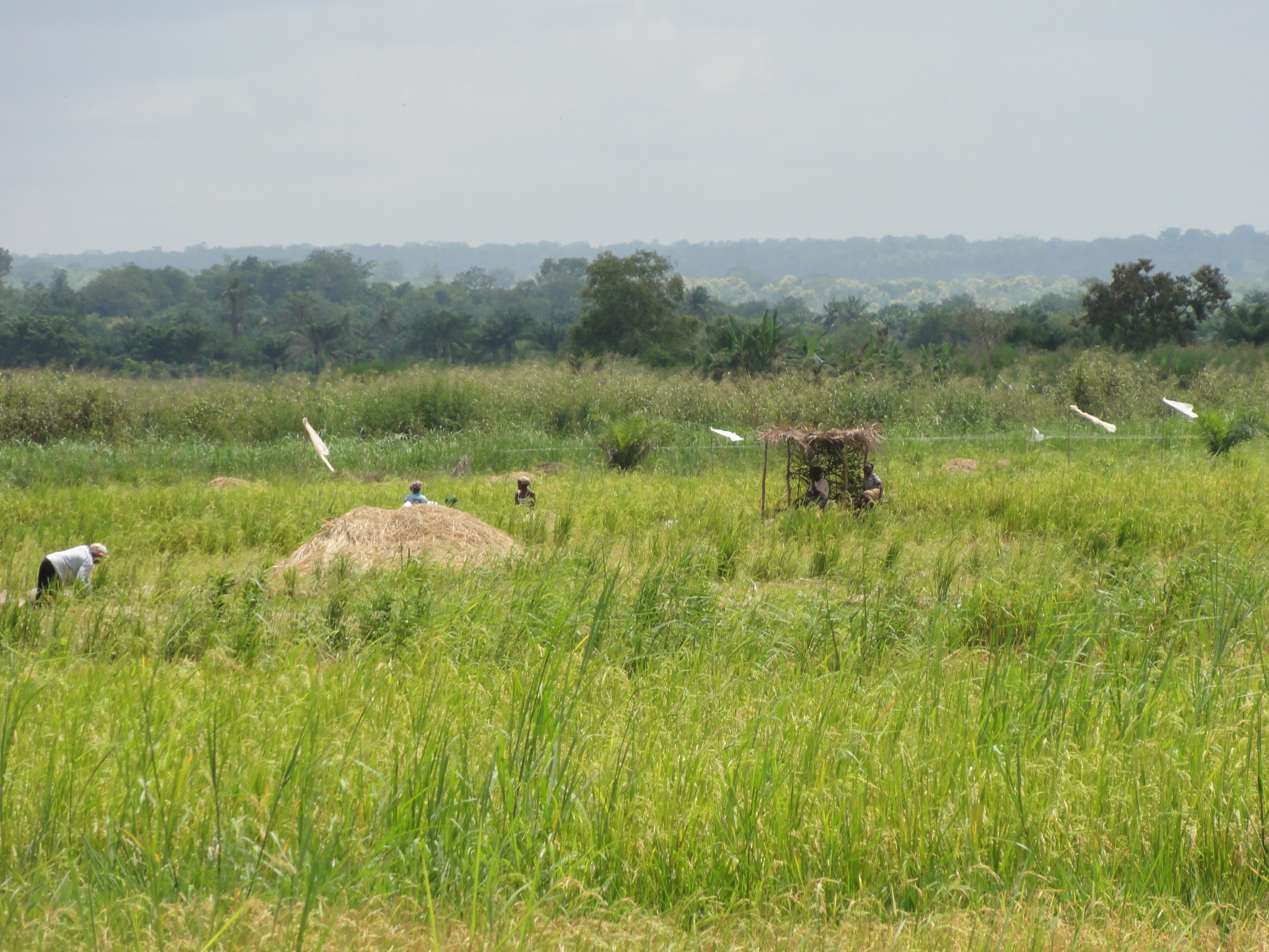 Rice cultivation in Benin